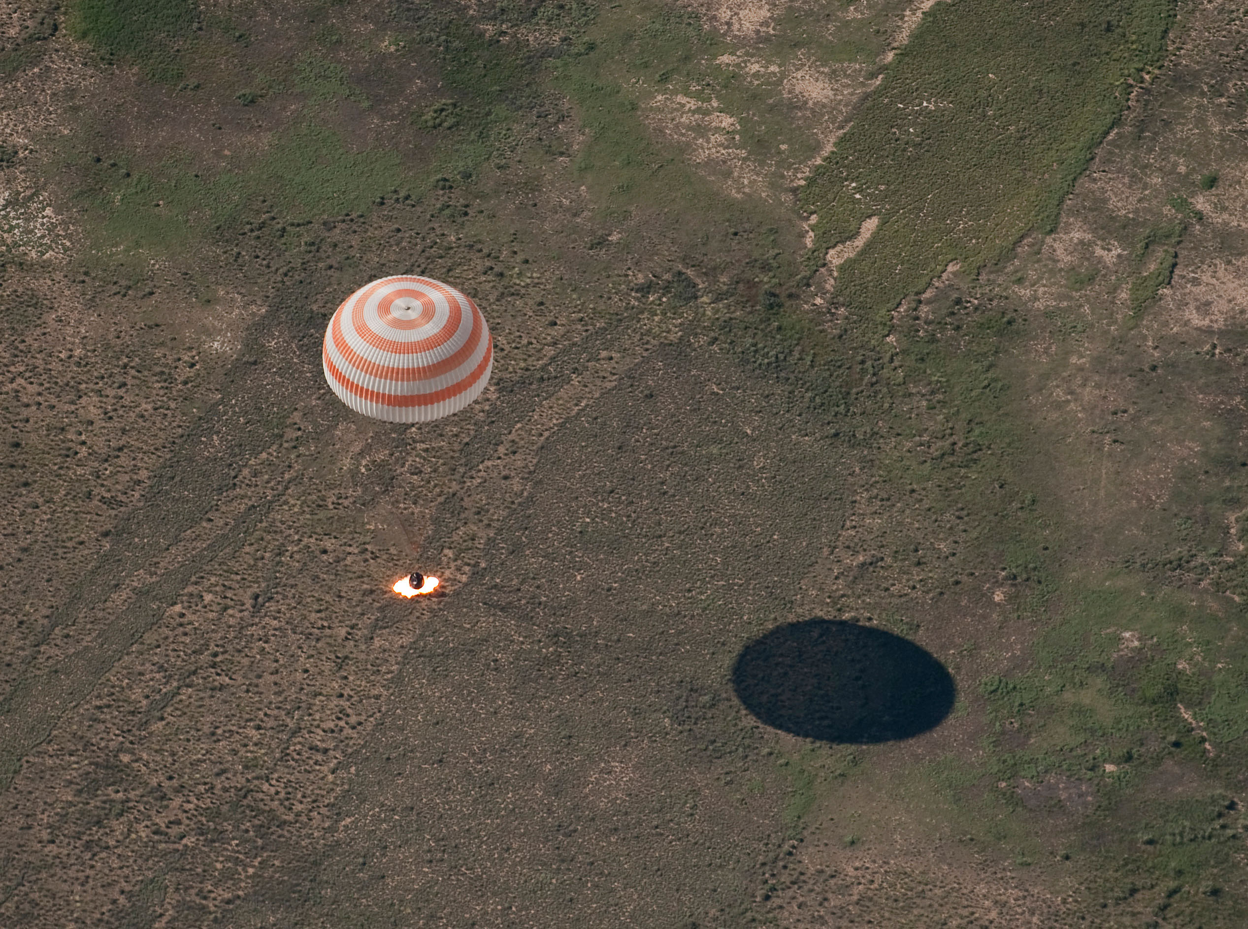 The Soyuz TMA-17 spacecraft is seen as it lands with Expedition 23 Commander Oleg Kotov and Flight Engineers T.J. Creamer and Soichi Noguchi near the town of Dzhezkazgan, Kazakhstan on Wednesday, June 2, 2010. NASA Astronaut Creamer, Russian Cosmonaut Kotov and Japanese Astronaut Noguchi are returning from six months on-board the International Space Station where they served as members of the Expedition 22 and 23 crews.